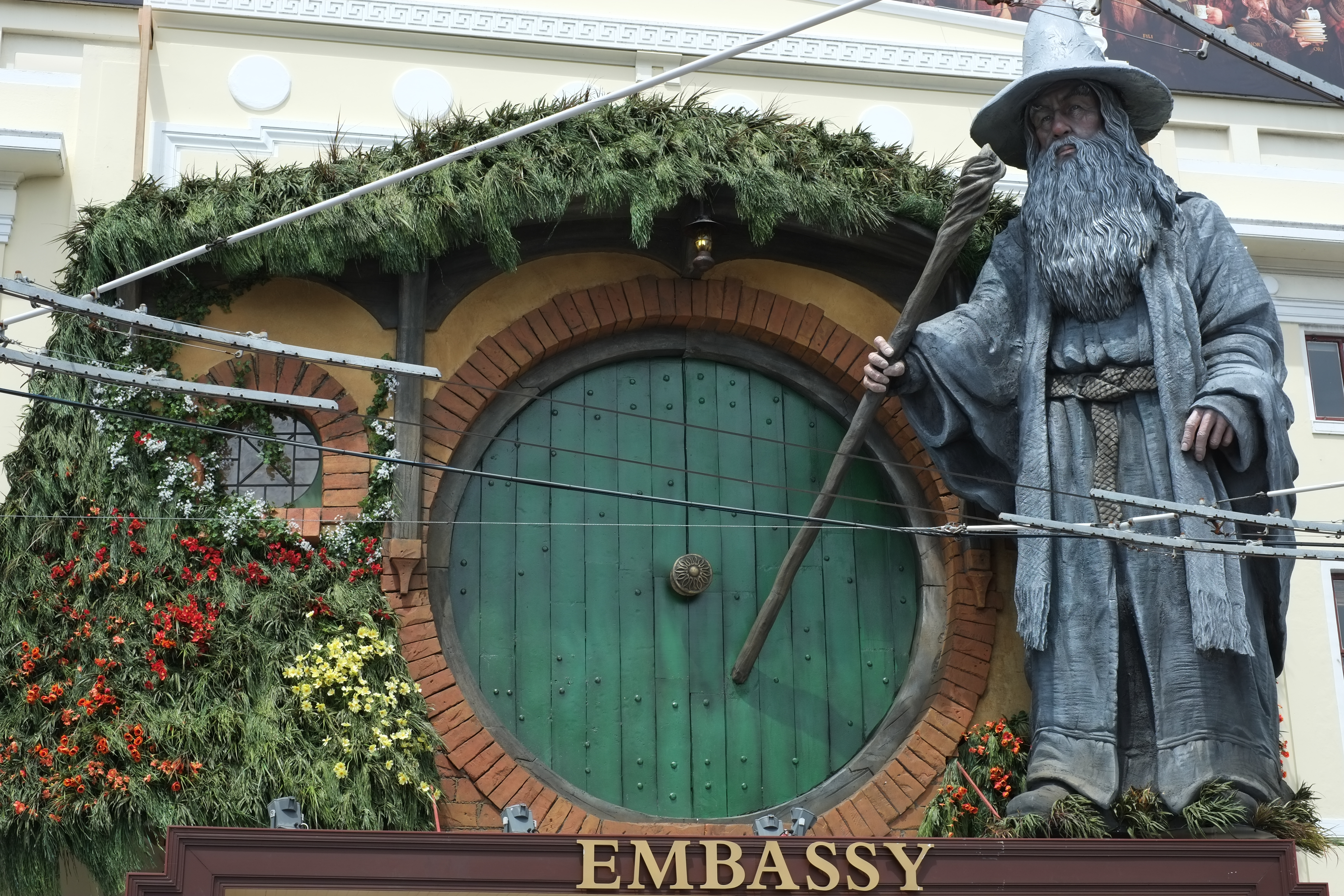 Bagend and Gandalf sculpture on top of The Embassy Theatre, Wellington